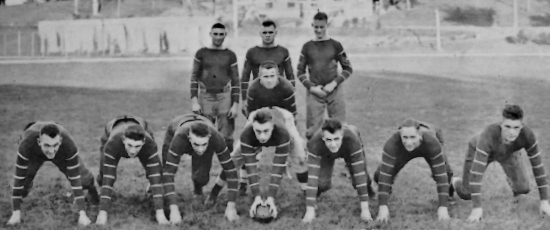 Group photograph of 1916 Carleton College football team with names in the caption